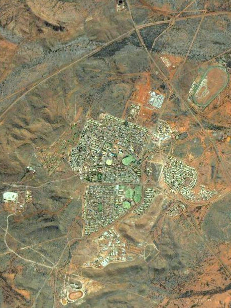 Aerial view of Newman, Western Australia. The road north-east of town is Great Northern Highway.